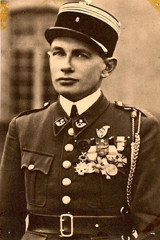 Photography of general Georges Journois, then major in the "5ème Bataillon de Chasseurs à Pied" (1939).